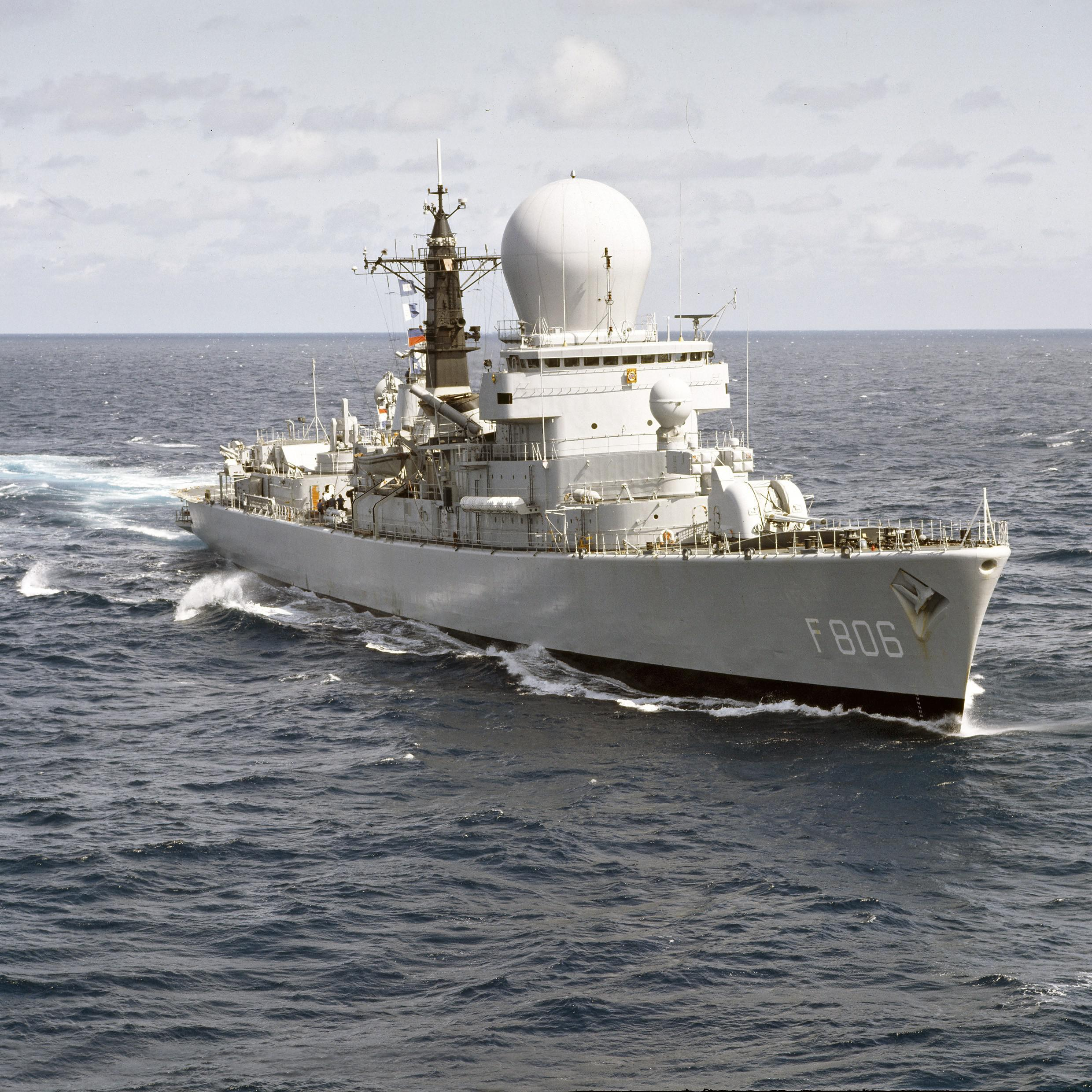 HNLMS De Ruyter (F806) at sea.